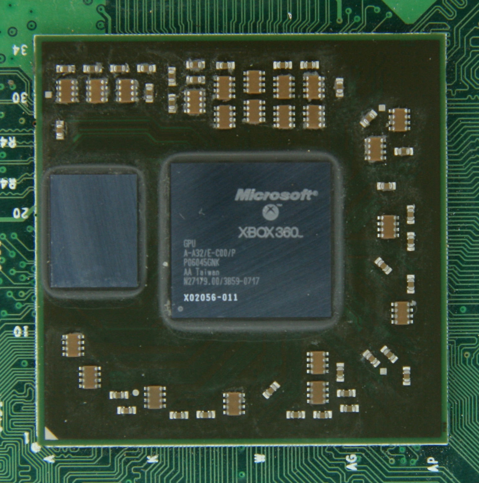 IC photo